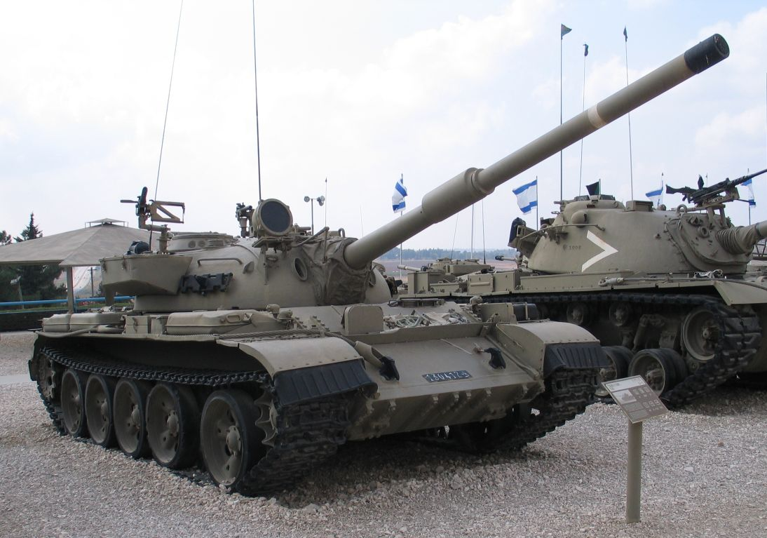 Description: Tiran-5, Israeli upgraded Sovied T-55 MBT (note the 105 mm gun) in Yad la-Shiryon Museum, Israel. Source: Photo by me, User:Bukvoed.